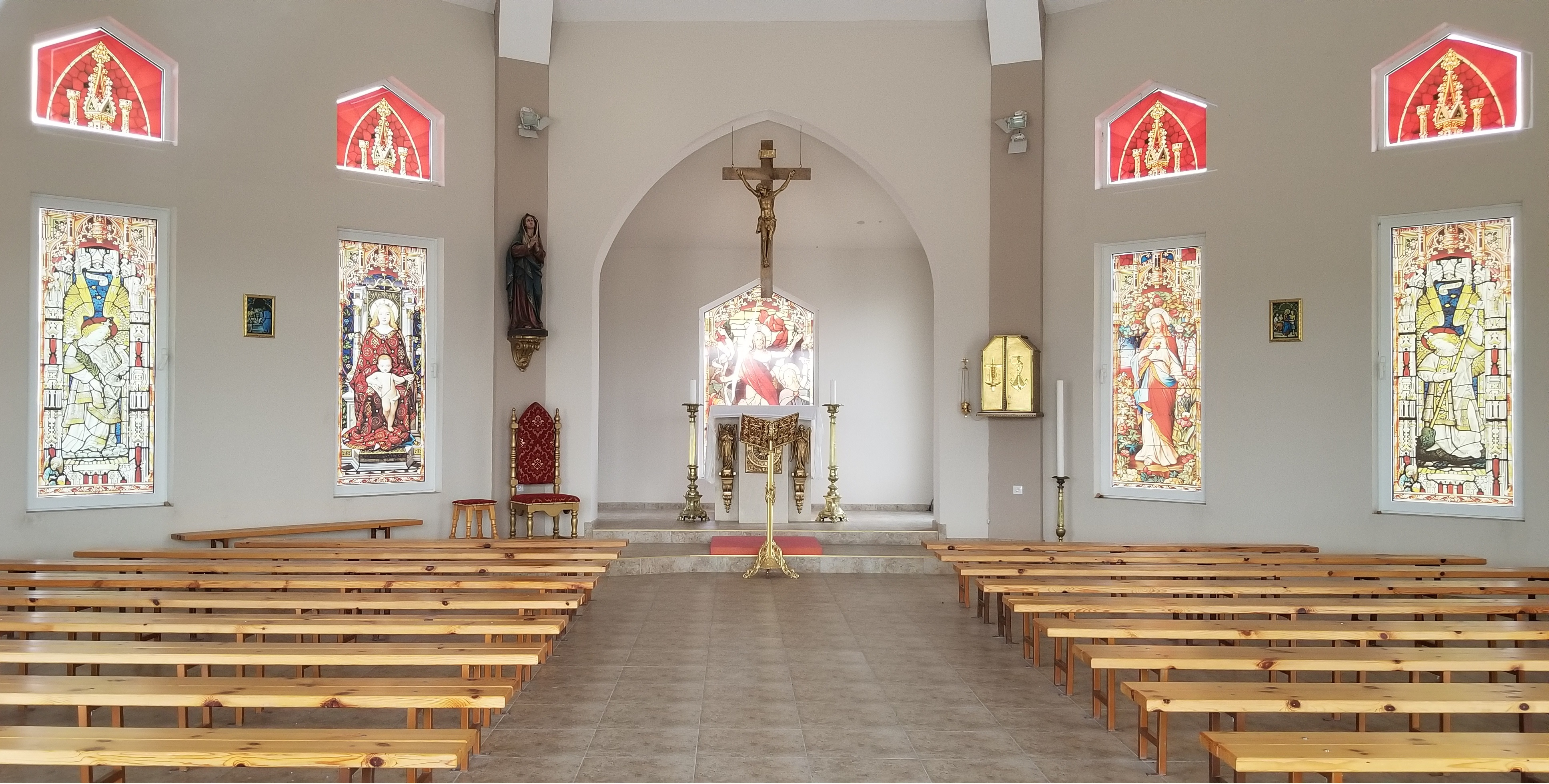 Christ Resurrected Chapel in Rakovski